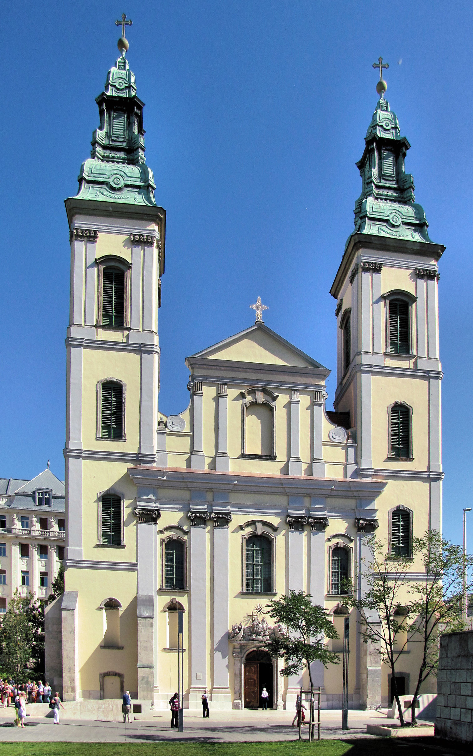 Inner City Parish Church, Budapest, Hungary.